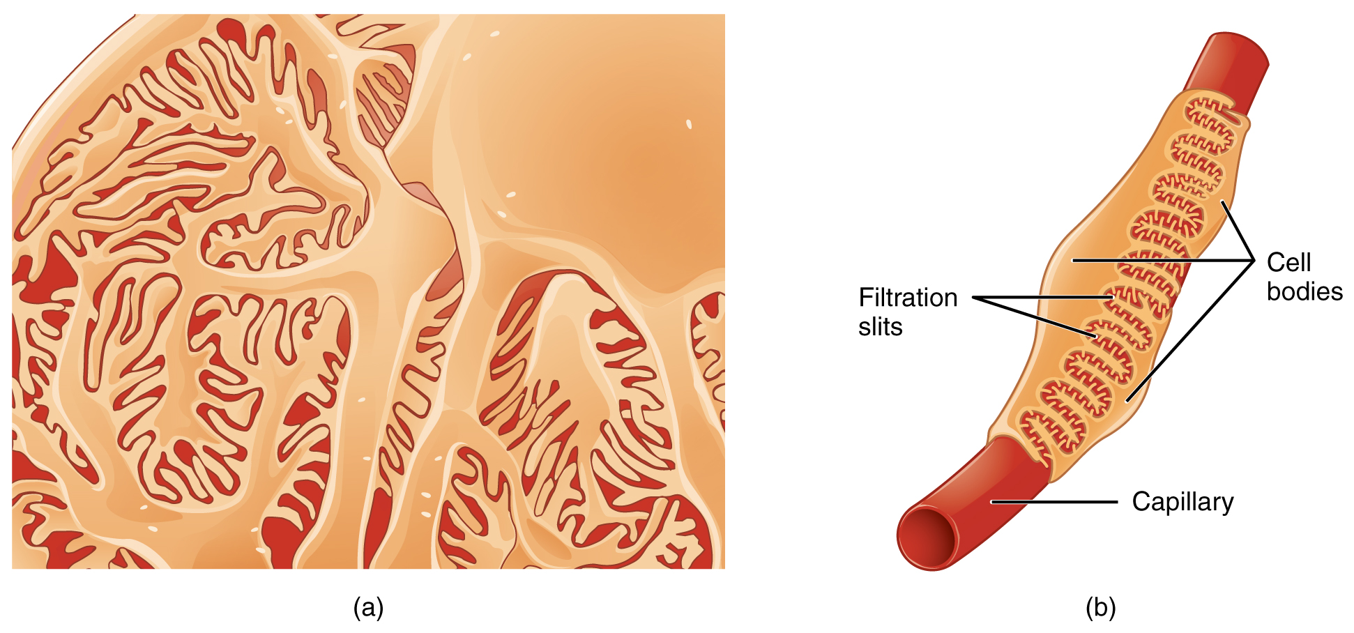 Illustration from Anatomy & Physiology, Connexions Web site. Jun 19, 2013.